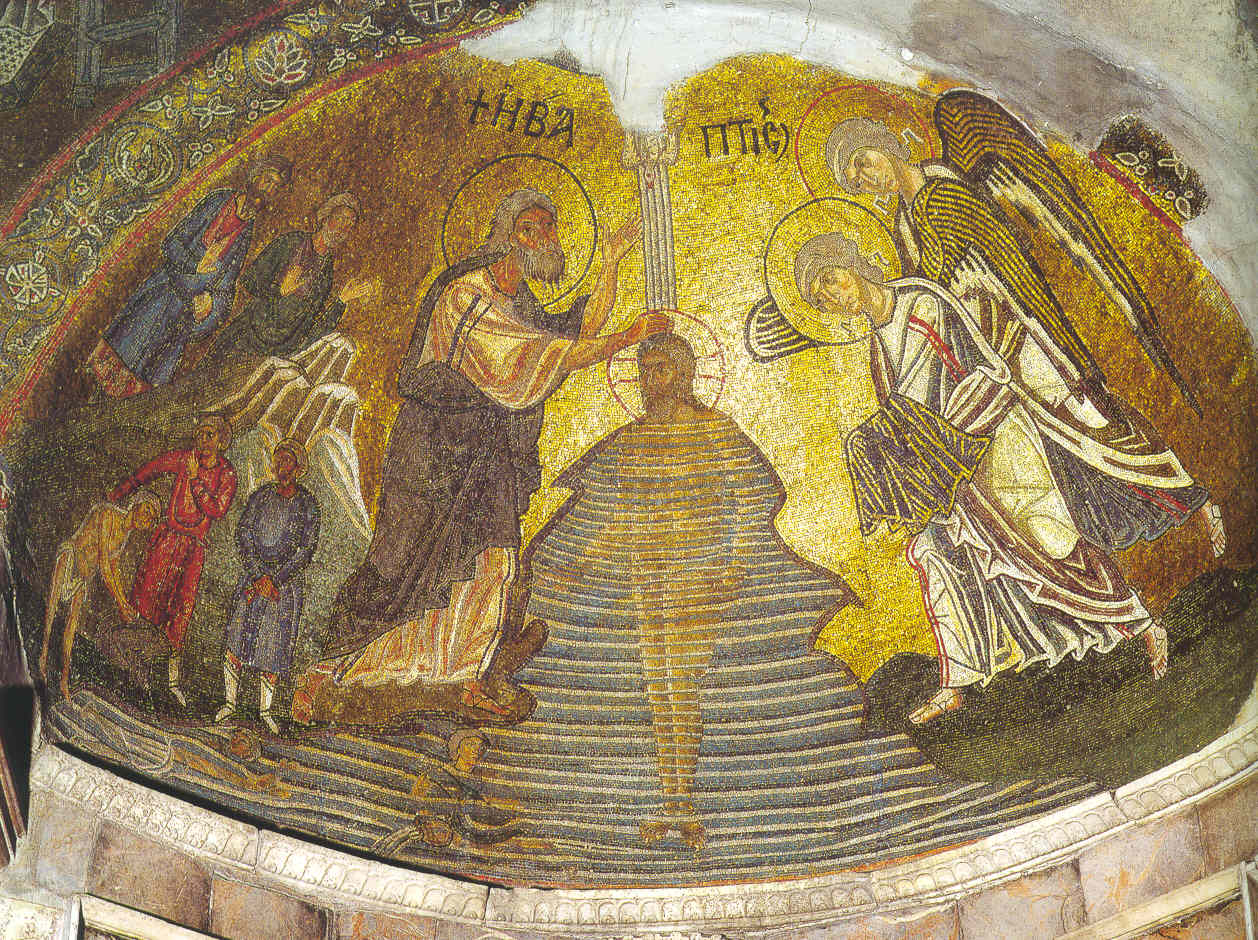 Baptism (mosaic in Nea Moni)